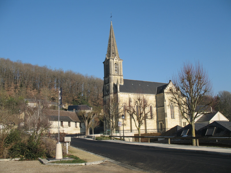 Center of the village, the church